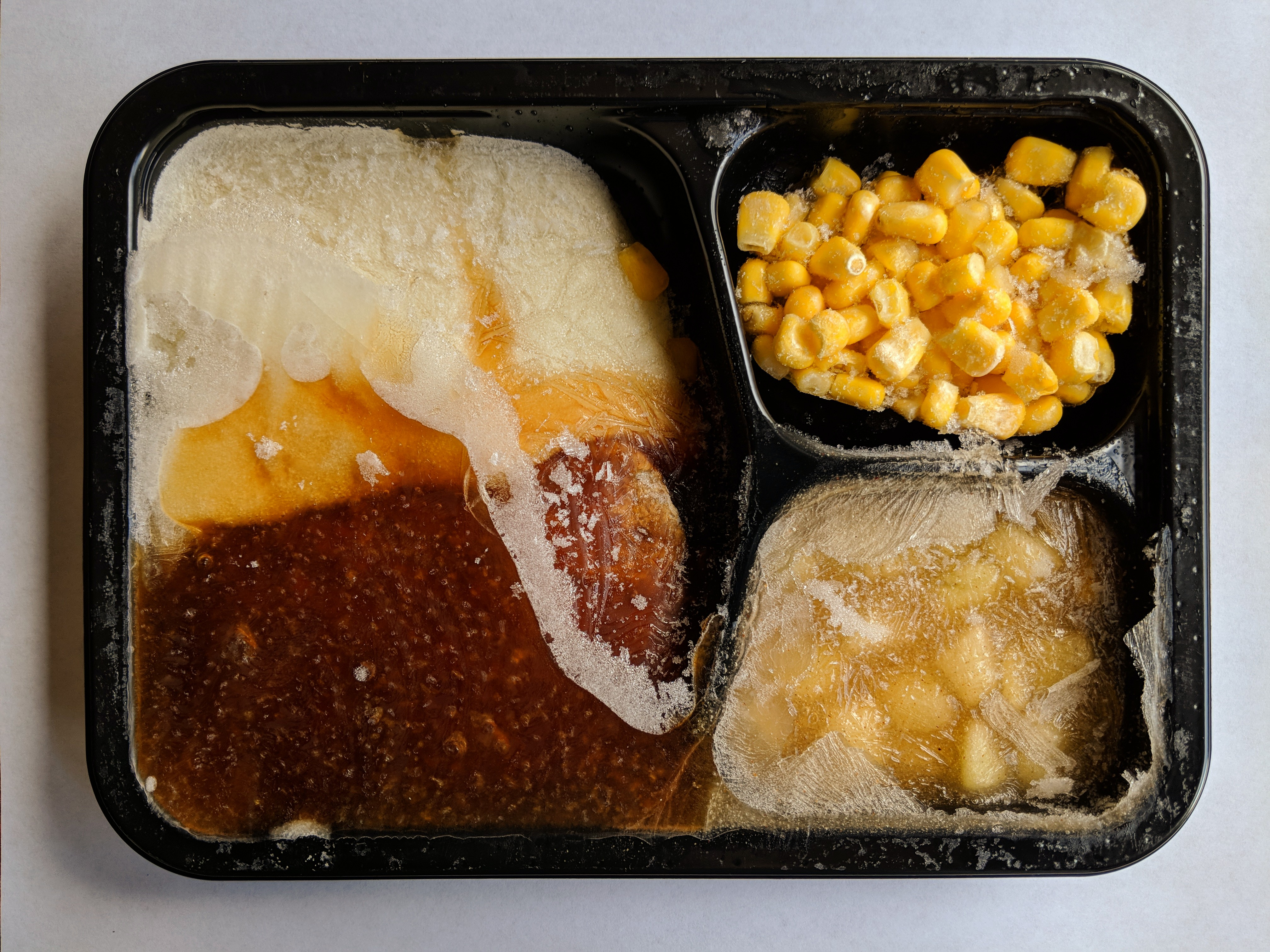 Top view of an opened, uncooked TV dinner.